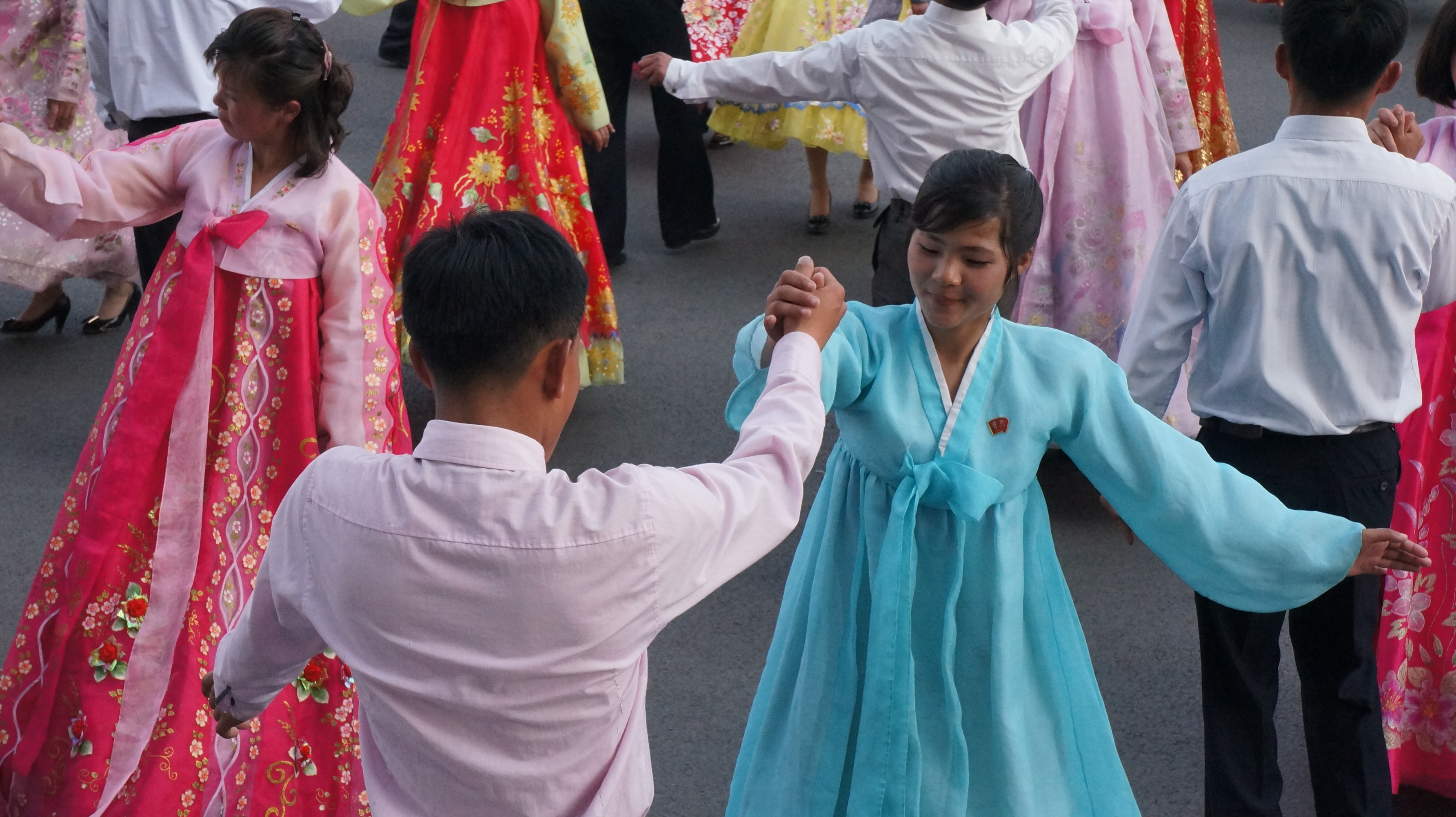 Kim Il Sung Birthday Celebrations April 15, 2014